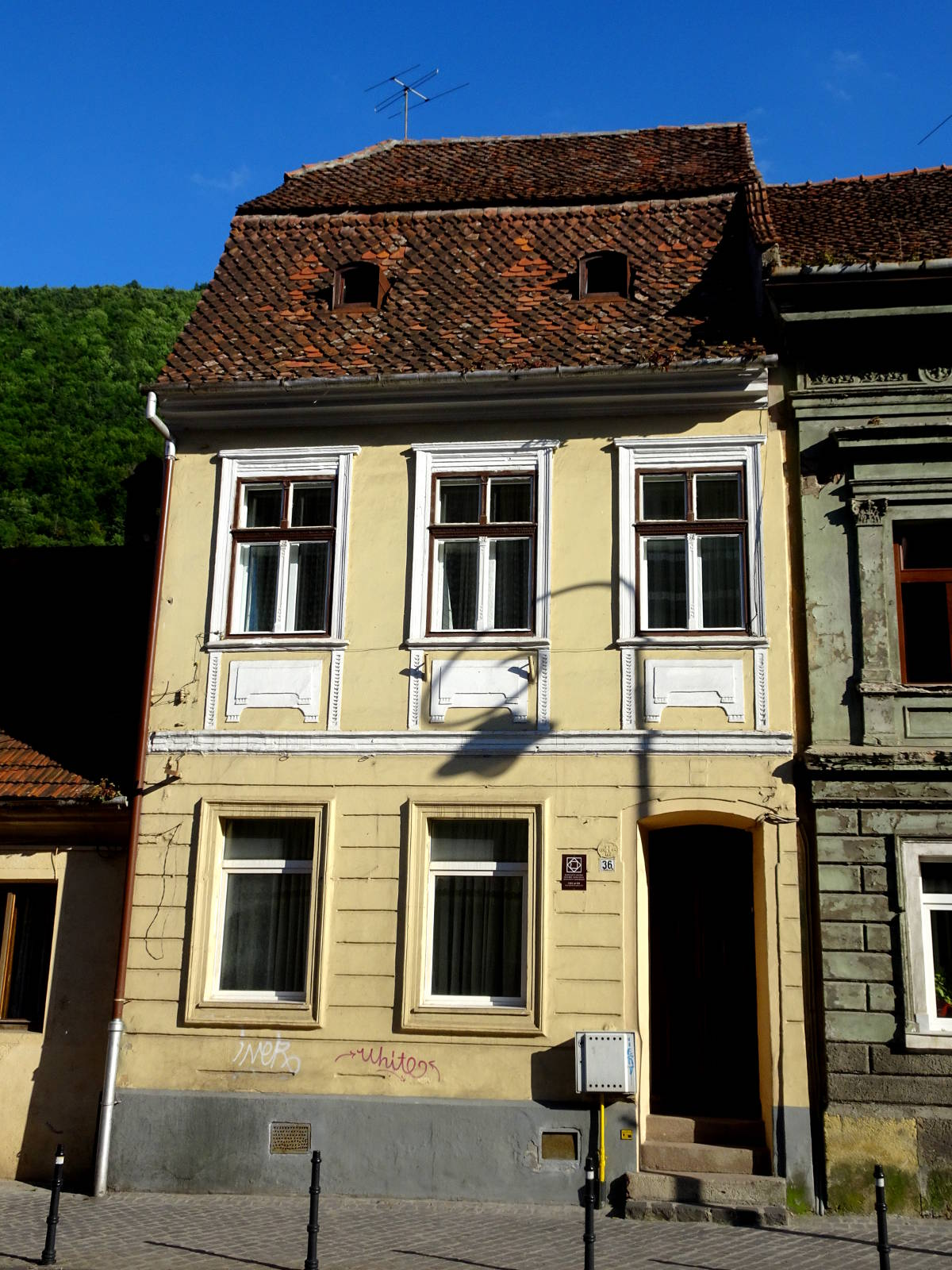 House in Bălcescu street, Brașov